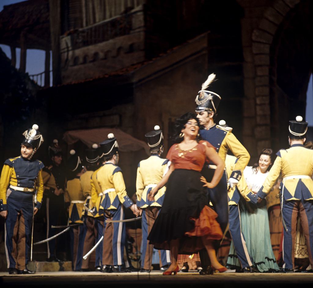 “Irina Arkhipova as Carmen and Vladislav Pyavko as Jose”. Irina Arkhipova as Carmen and Vladislav Pyavko as Jose in Georges Bizet's opera staged at the USSR State Academic Bolshoi Theatre.